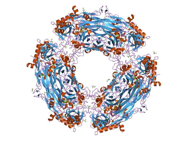 Cartoon representation of the molecular structure of protein registered with 2oqe code.